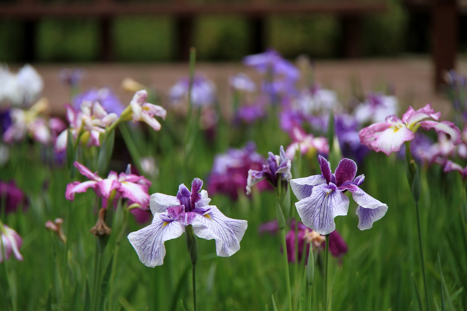 Izuminomori Park